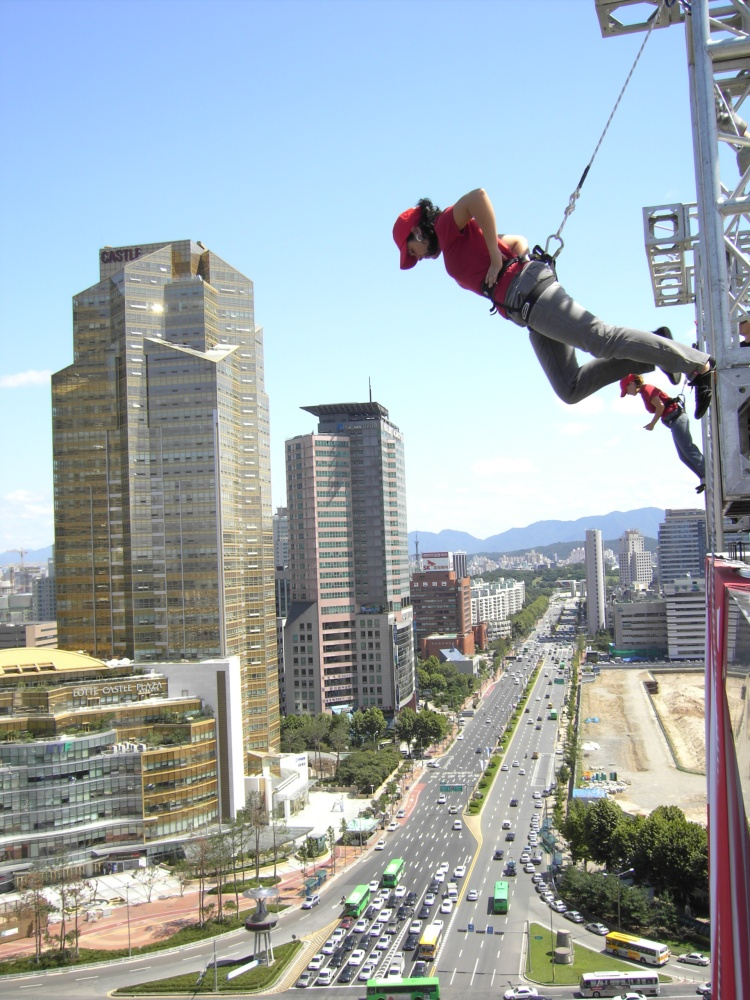 Vertical Skywalk Show, Seoul Korea, Lotte Mall